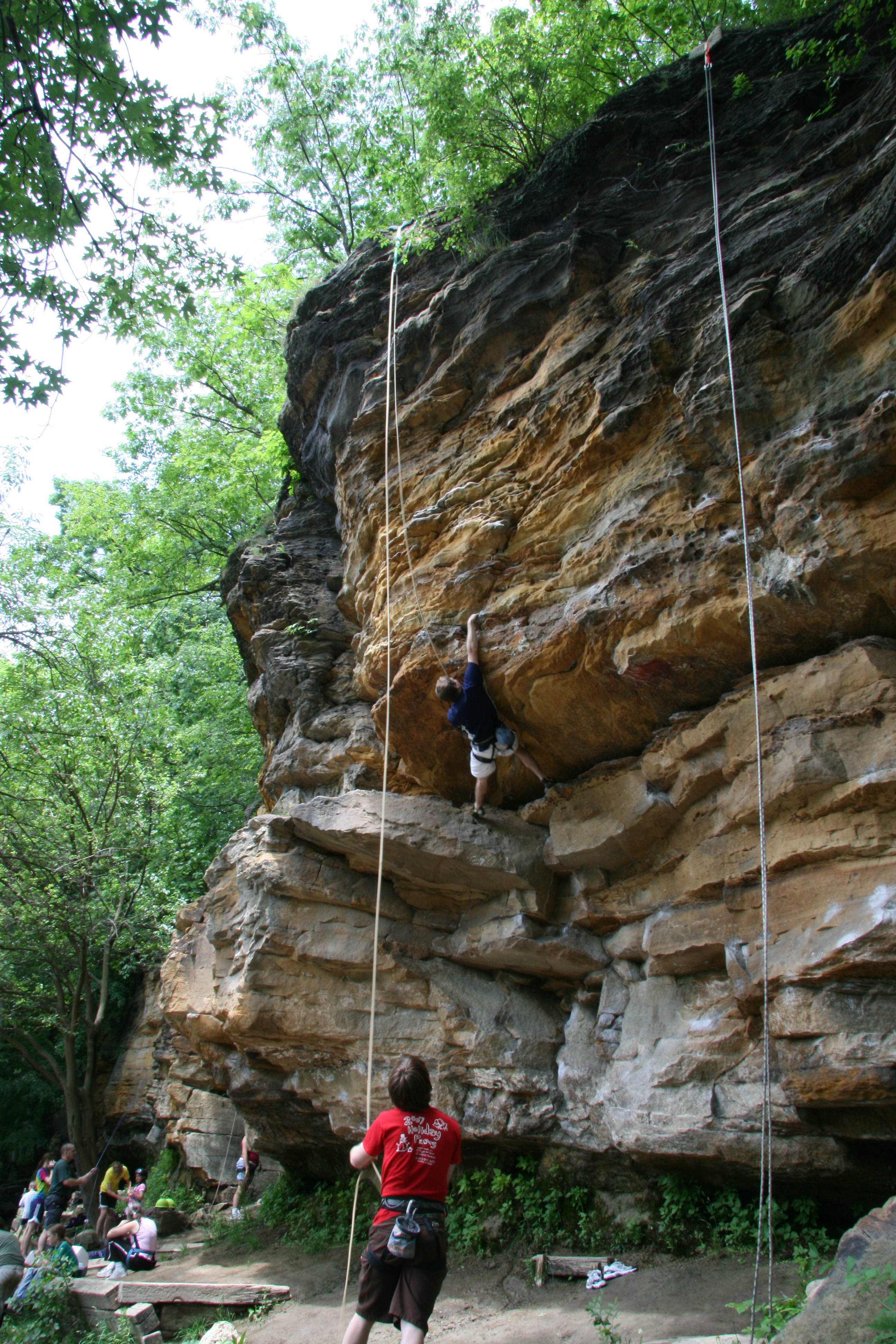 Classic route Doug's Roof in Oak Park in Grand Ledge, Michigan